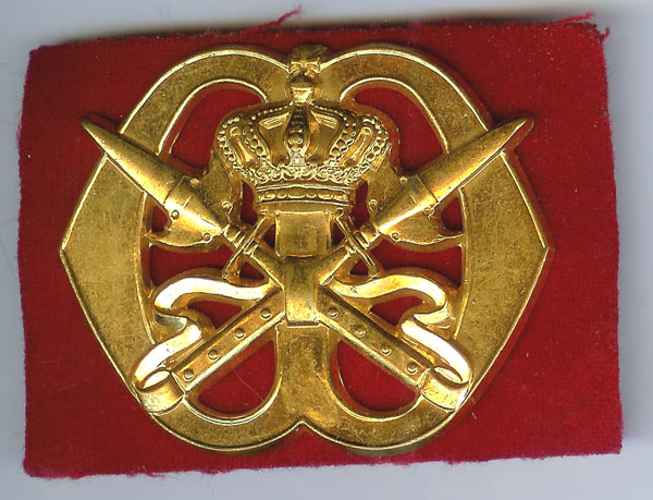 Dutch cap badge of the Royal Military School